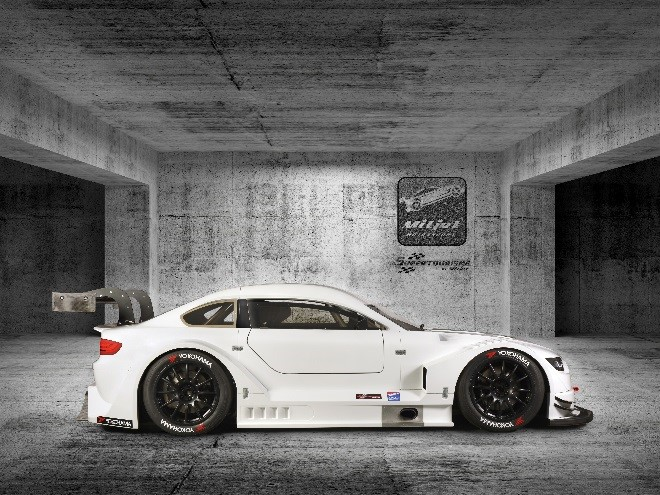 Mitjet Supertourisme